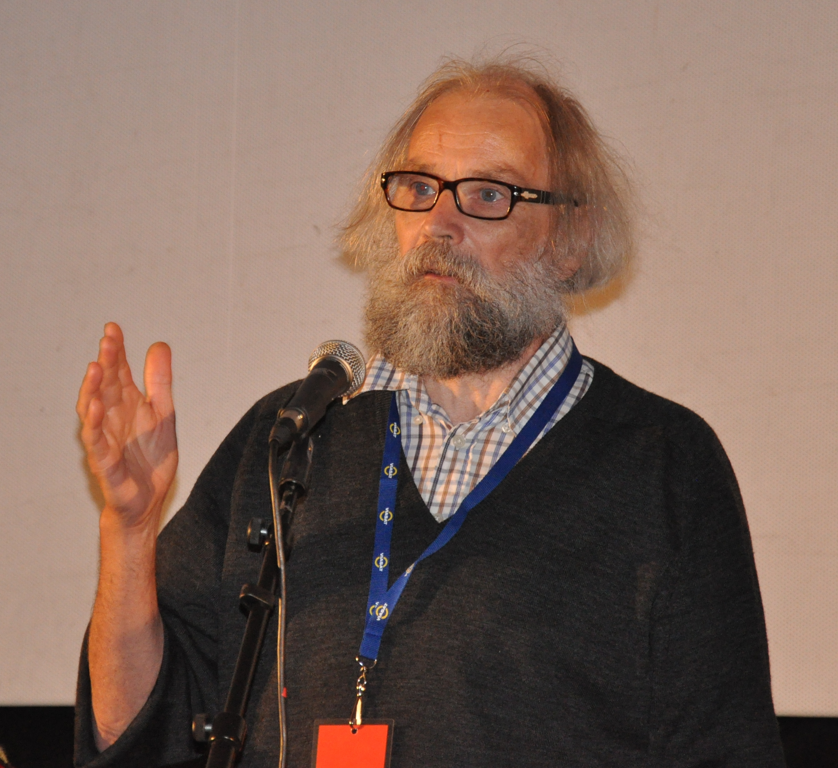 Finnish documentarist Markku Lehmuskallio at the Midnight Sun Film Festival 2009 in Sodankylä, Finland.